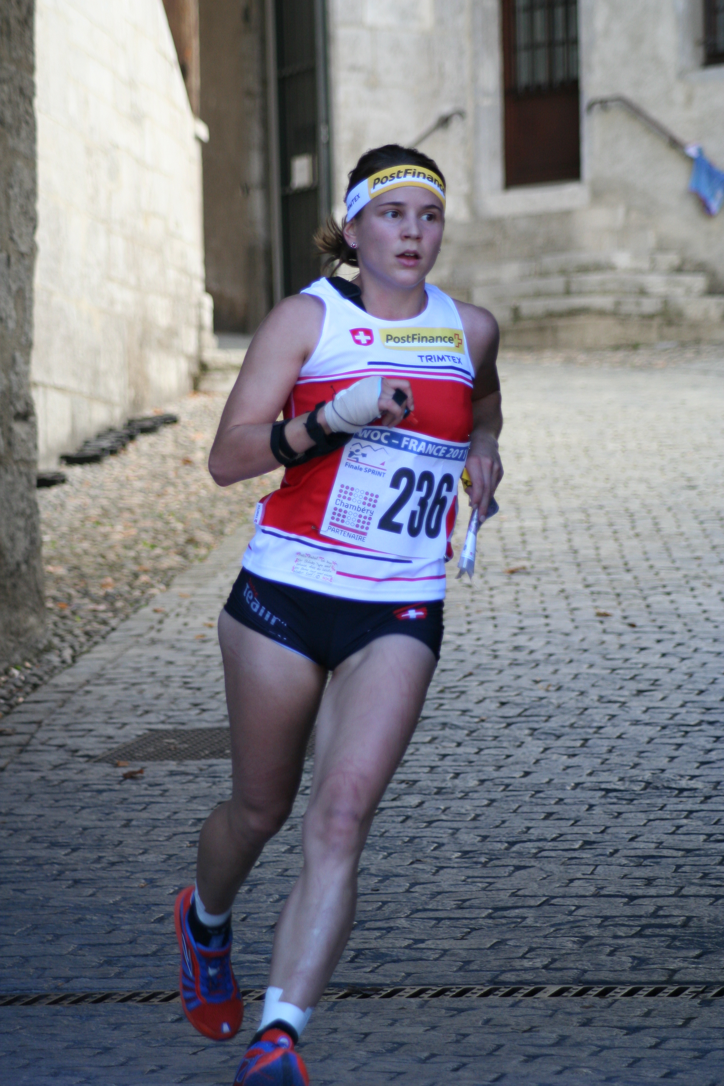 Rahel FRIEDERICH (SUI) WOC 2011 Sprint final Chambery - France Photos by Niels-Peter Foppen —